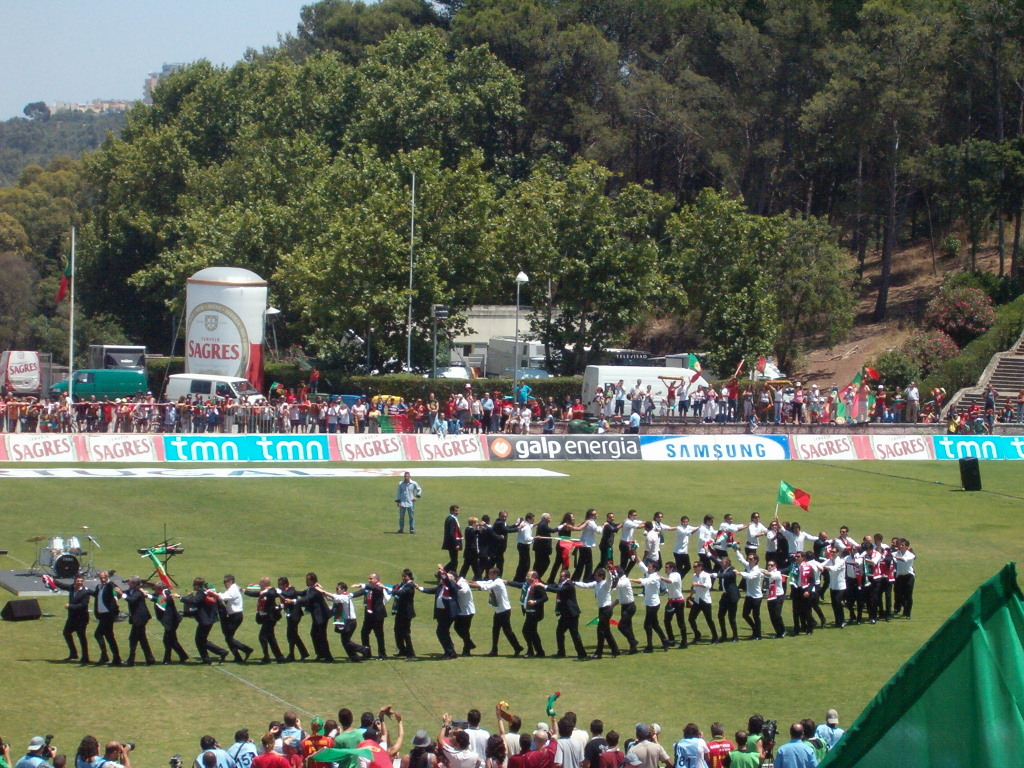 Estádio Nacional do Jamor